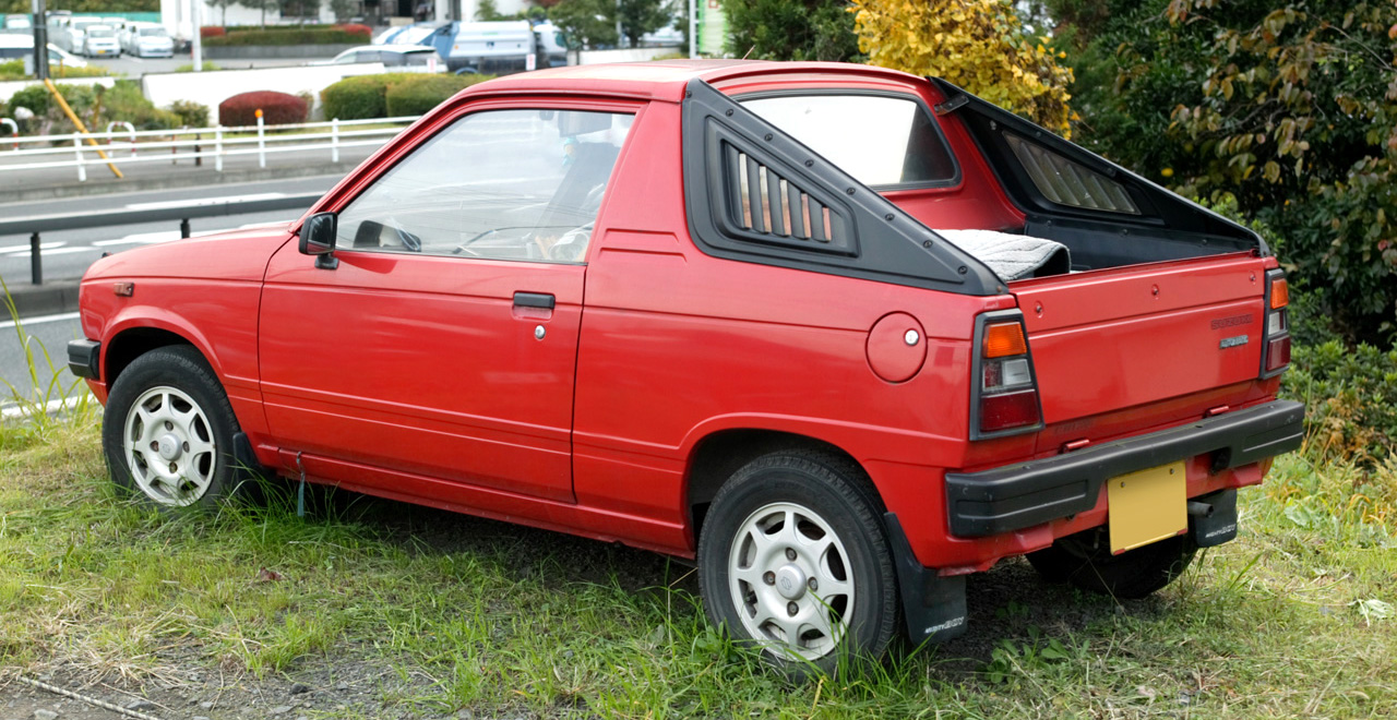 An early Suzuki Mighty Boy, with genuine accessories.